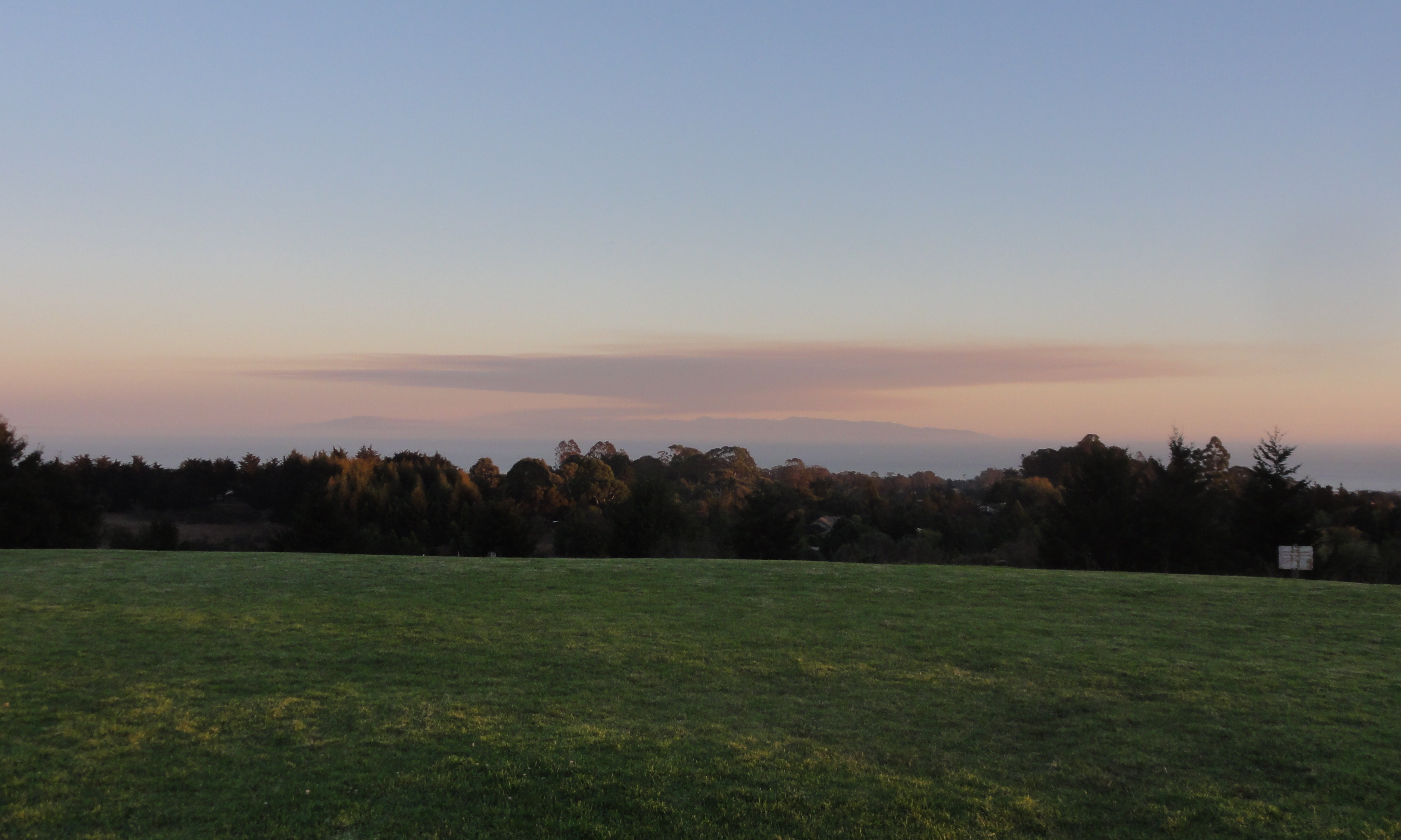 View from UC Santa Cruz of the Tassajara Fire smoke cloud rising over the Santa Lucia Mountains.